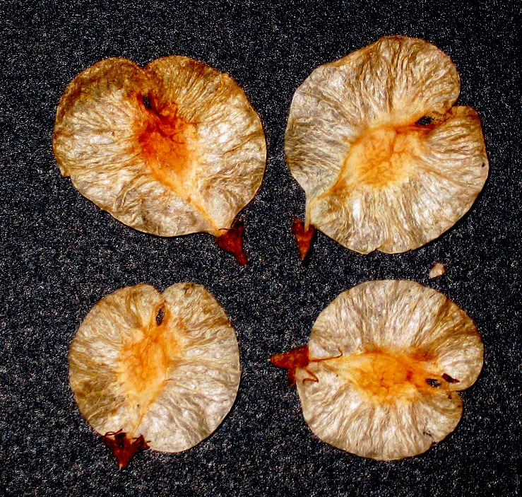 Photo of seeds of Ulmus canescens collected from trees in the Plain of Esdraelon, Israel, collected by Yoav Gertman. Photo taken by author, 8 May 2009